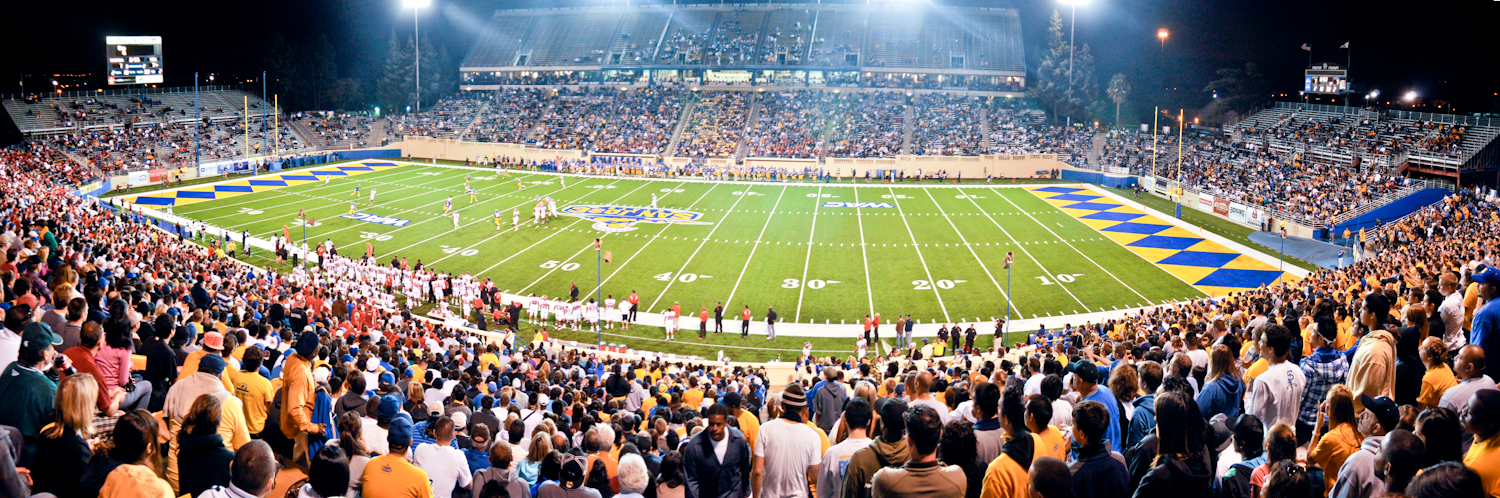 View from the student section (facing west) of Spartan Stadium during a football contest between the San Jose State Spartans and the Utah Utes.